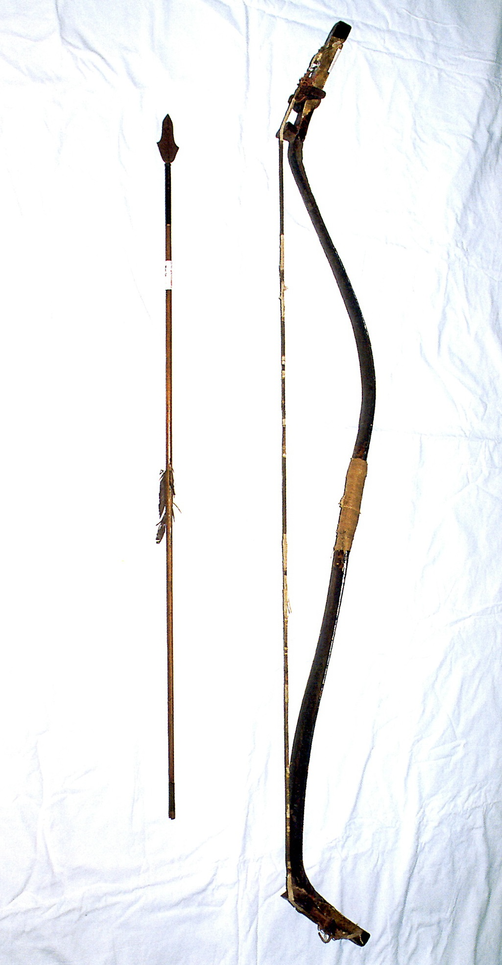 The bow of a Mongolian army